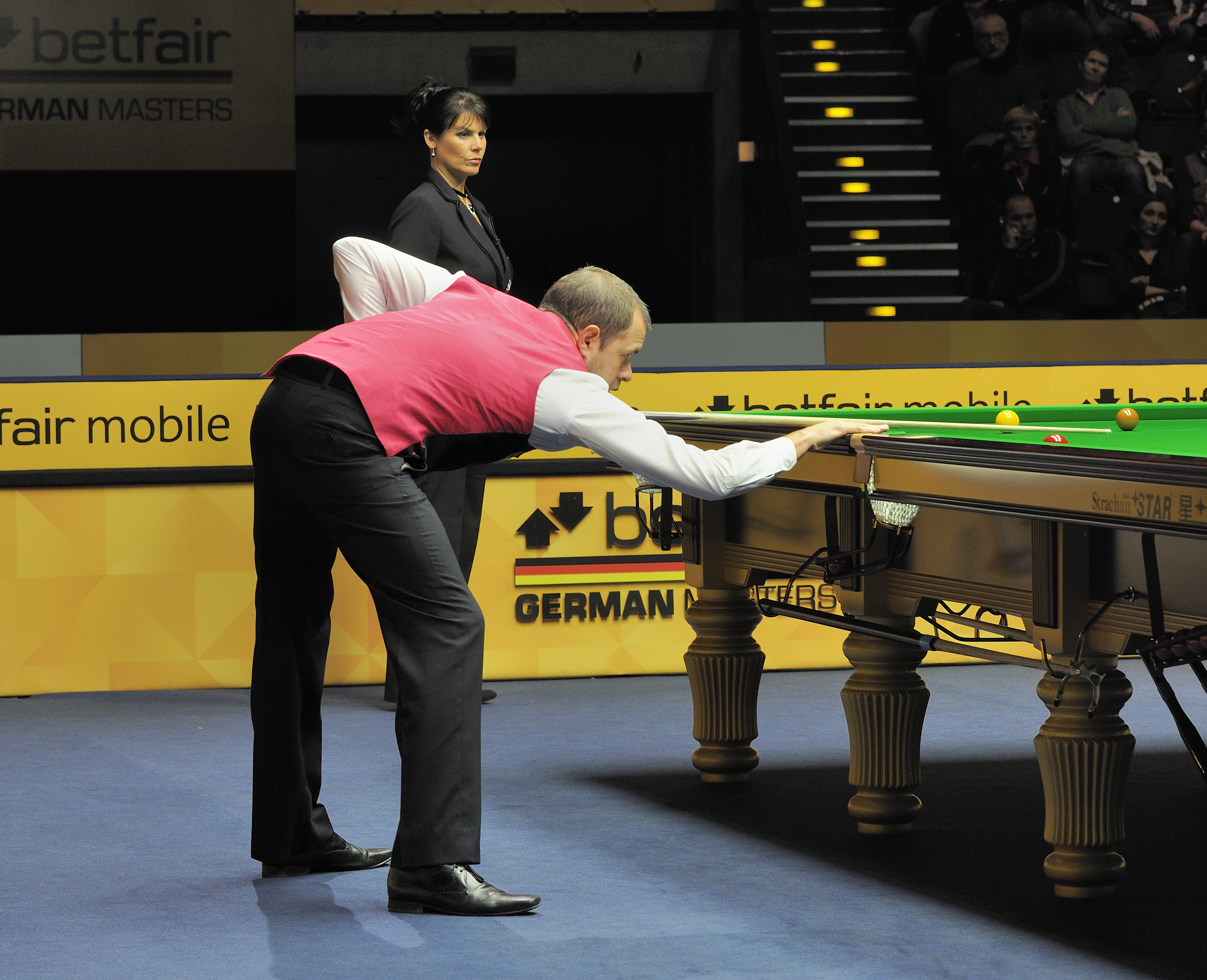 Picture taken in Berlin during the Snooker German Masters in 2013. Barry Hawkins and Michaela Tabb.